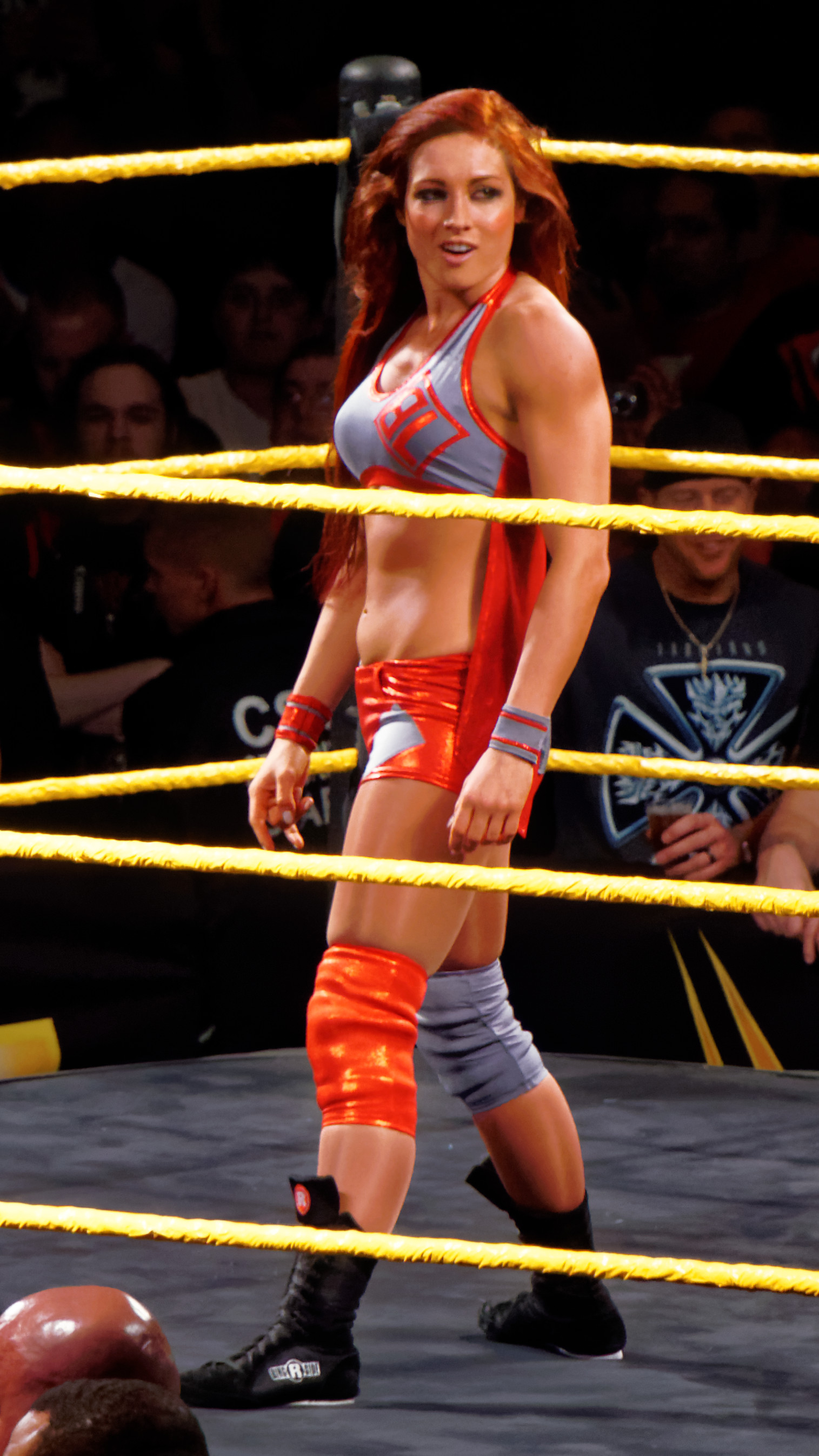 Becky Lynch at an NXT event in San Jose, California in March 2015